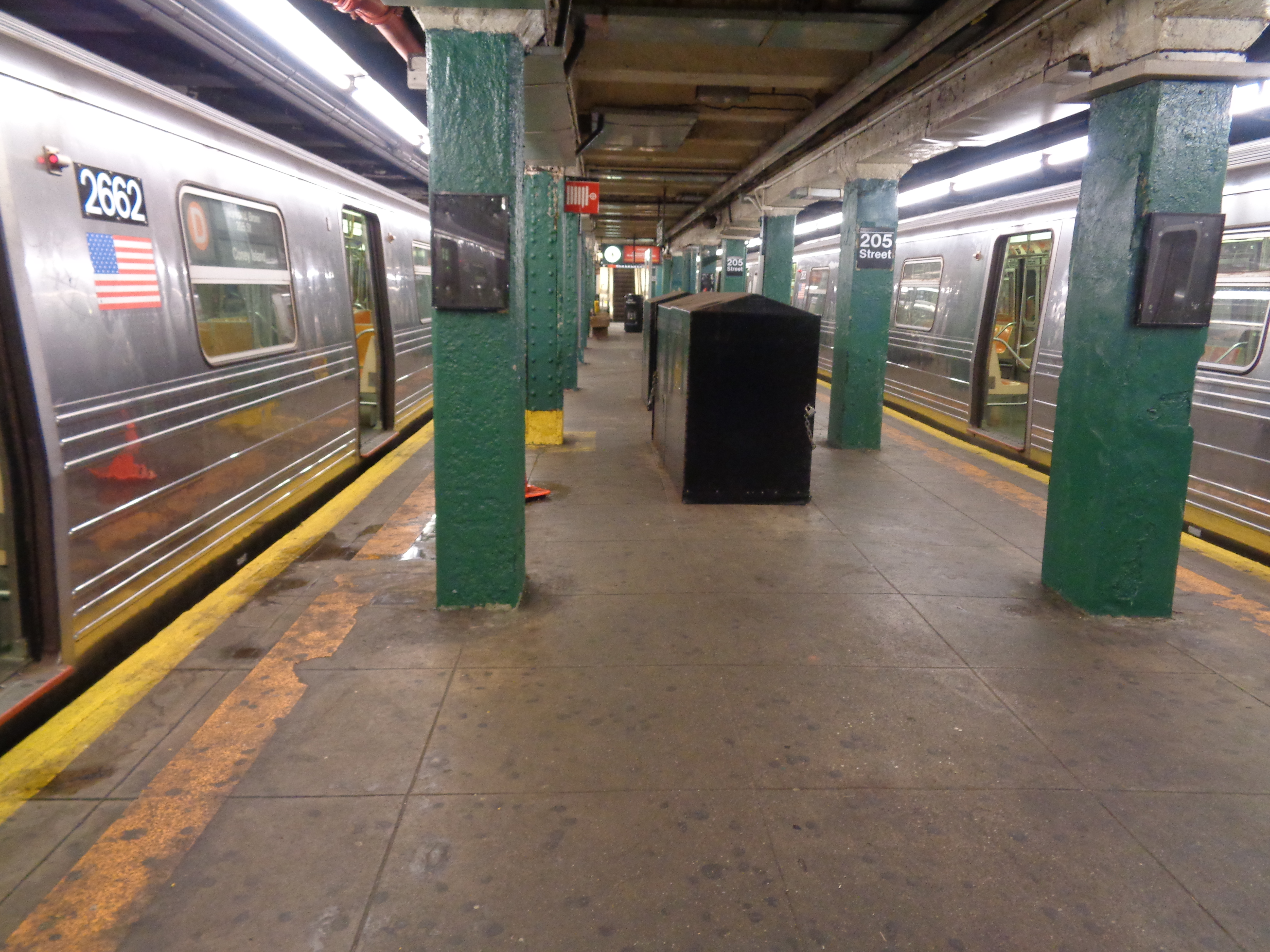 The Norwood – 205th Street station platform in the Bronx. To the left is a terminating D train. To the right is a D train entering Manhattan-bound service.